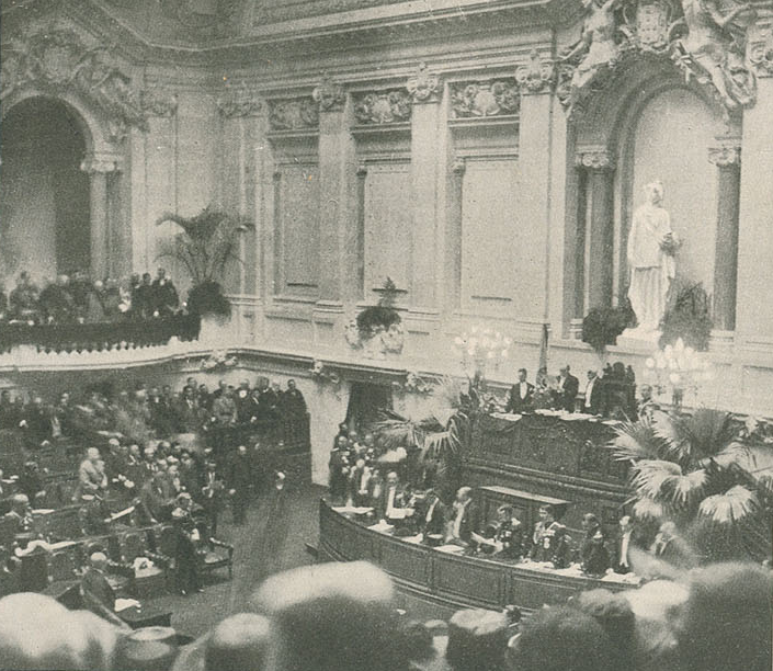 António José de Almeida is sworn-in as President of the Portuguese Republic, before Congress, on 5 October 1919.